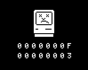 Sad Mac icon.